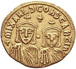 Theophilus. 829-842. AV Solidus (20mm, 4.33 g, 6h). Constantinople mint. Struck 830/1-842. Reverse: Crowned facing busts of Michael II and Constantine; cross above. Füeg 3.A.1.y; DOC 3c; SB 1653. VF.